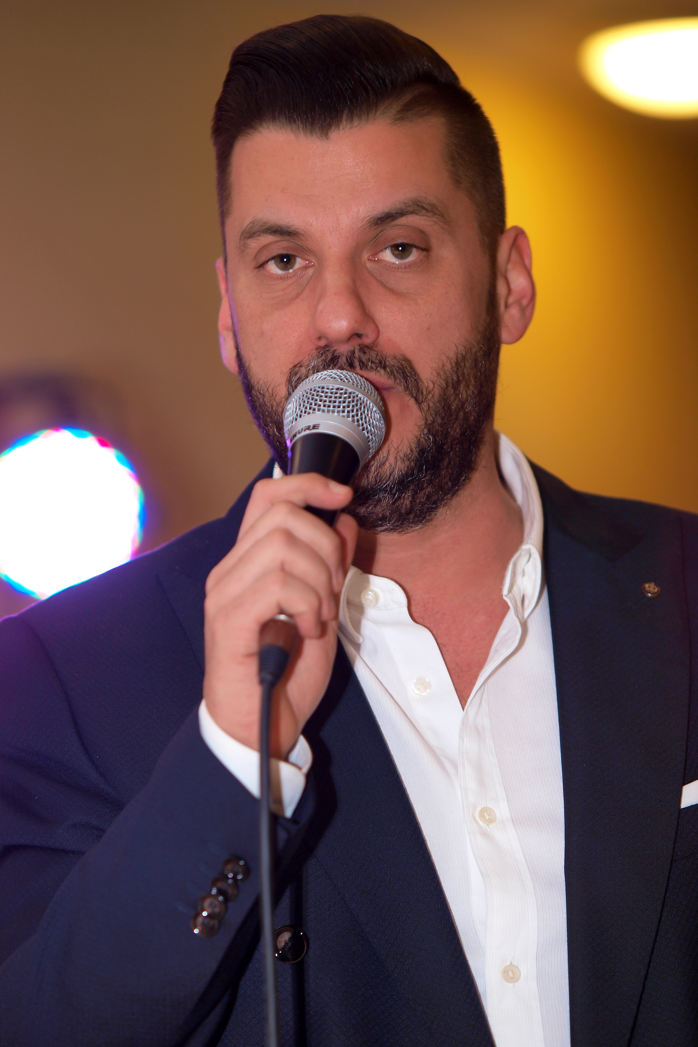 Hungarian vocalist Attila Kökény in 2014